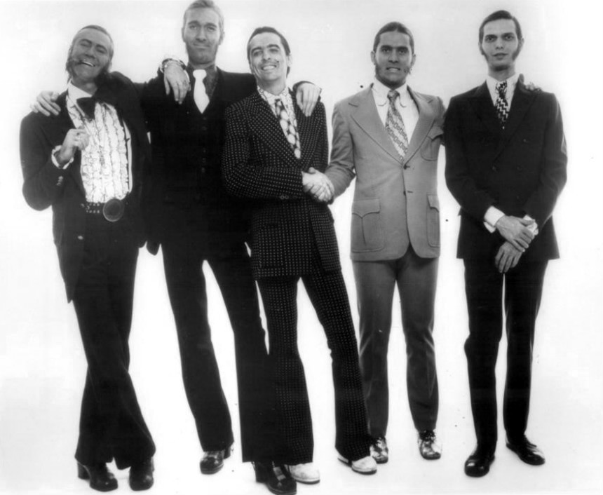 Publicity photo of the group Alice Cooper.